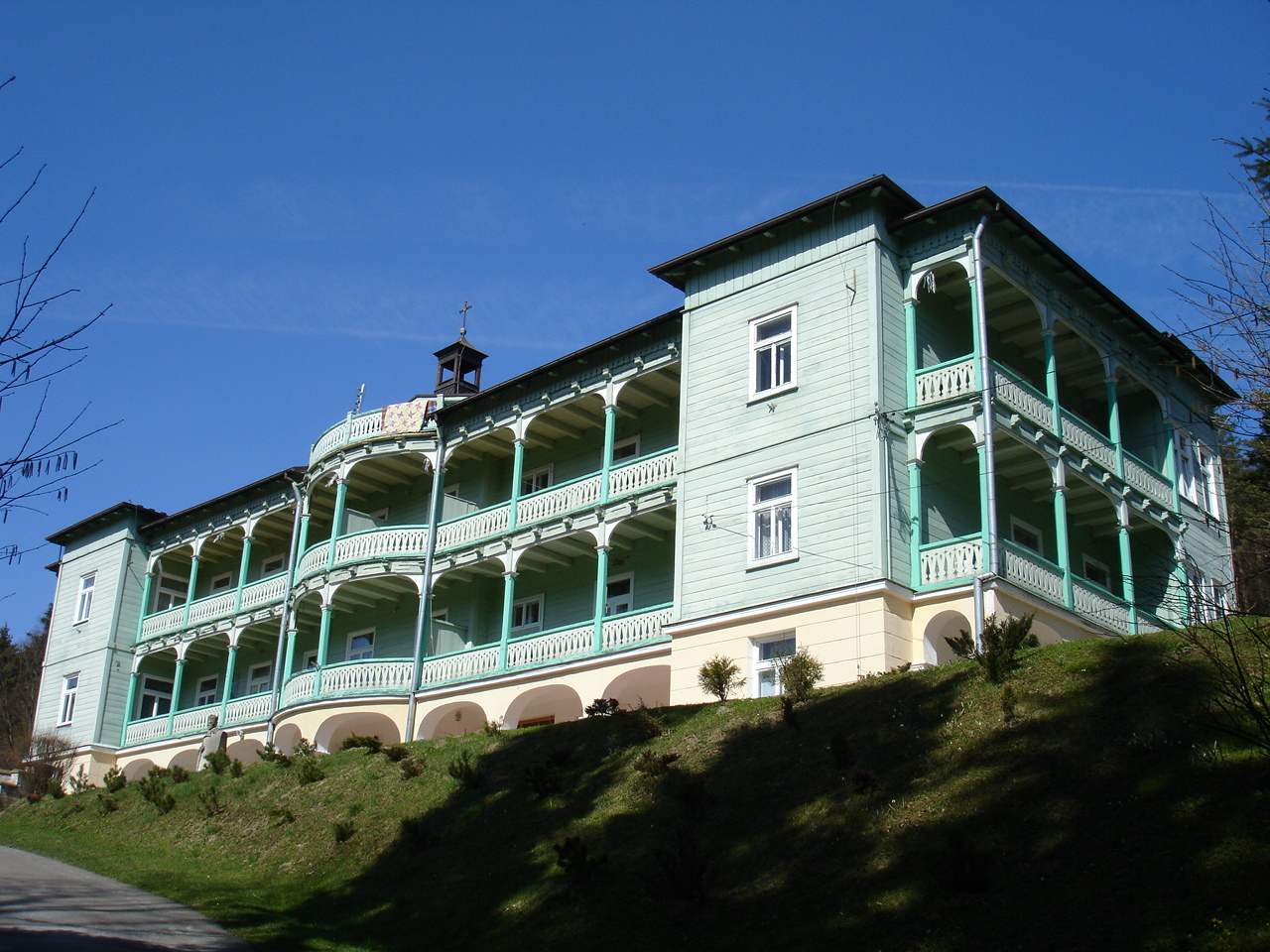 Congregatio Sanctae Familiae de Nazareth in Komańcza (Poland)